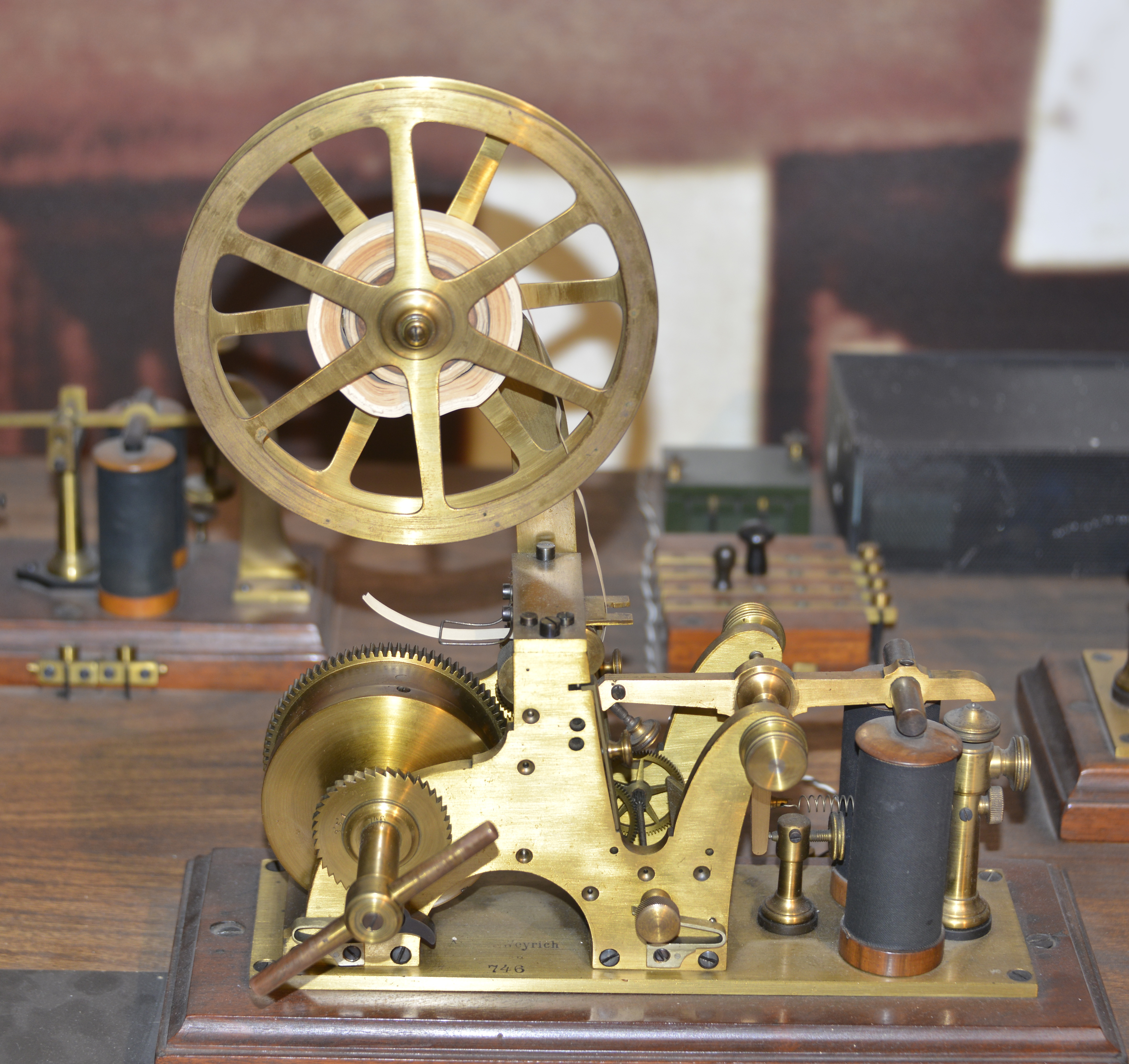 Exhibits of old telegraph at the PTT Museum in Belgrade